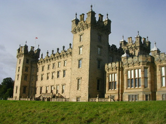 Floors Castle, south front. Kelso, Scotland.